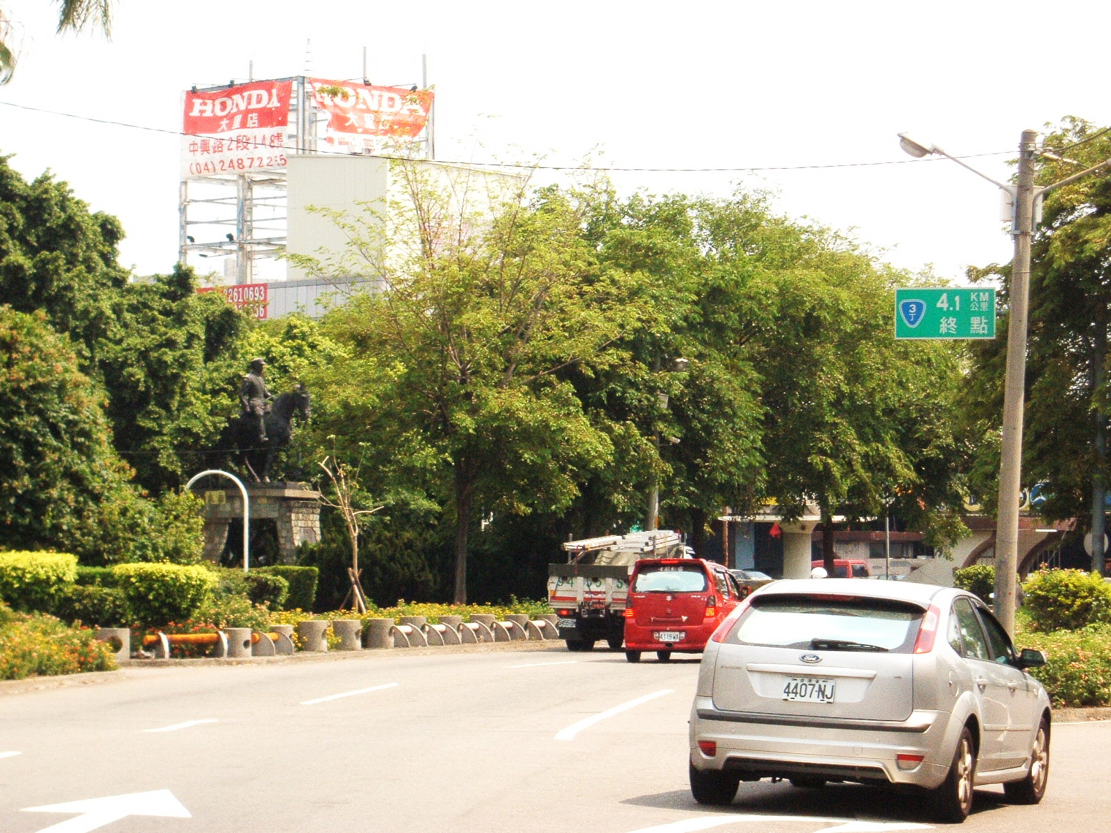 South end of Provincial Highway No. 3D（3丁） of Taiwan.